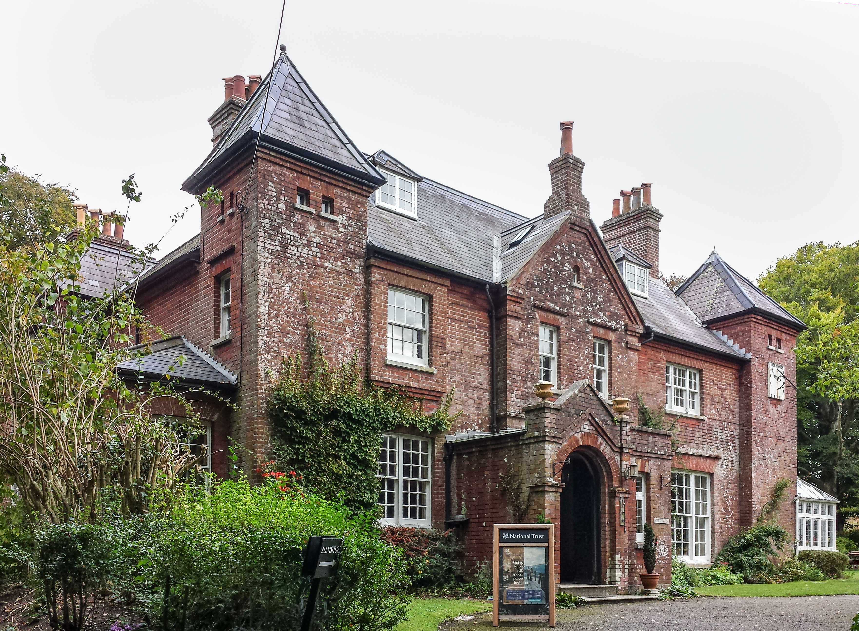 Max Gate, Dorchester, Dorset. This house was the home of English novelist and poet Thomas Hardy from 1885 until his death in 1928. This is a Grade I Listed Building in England.